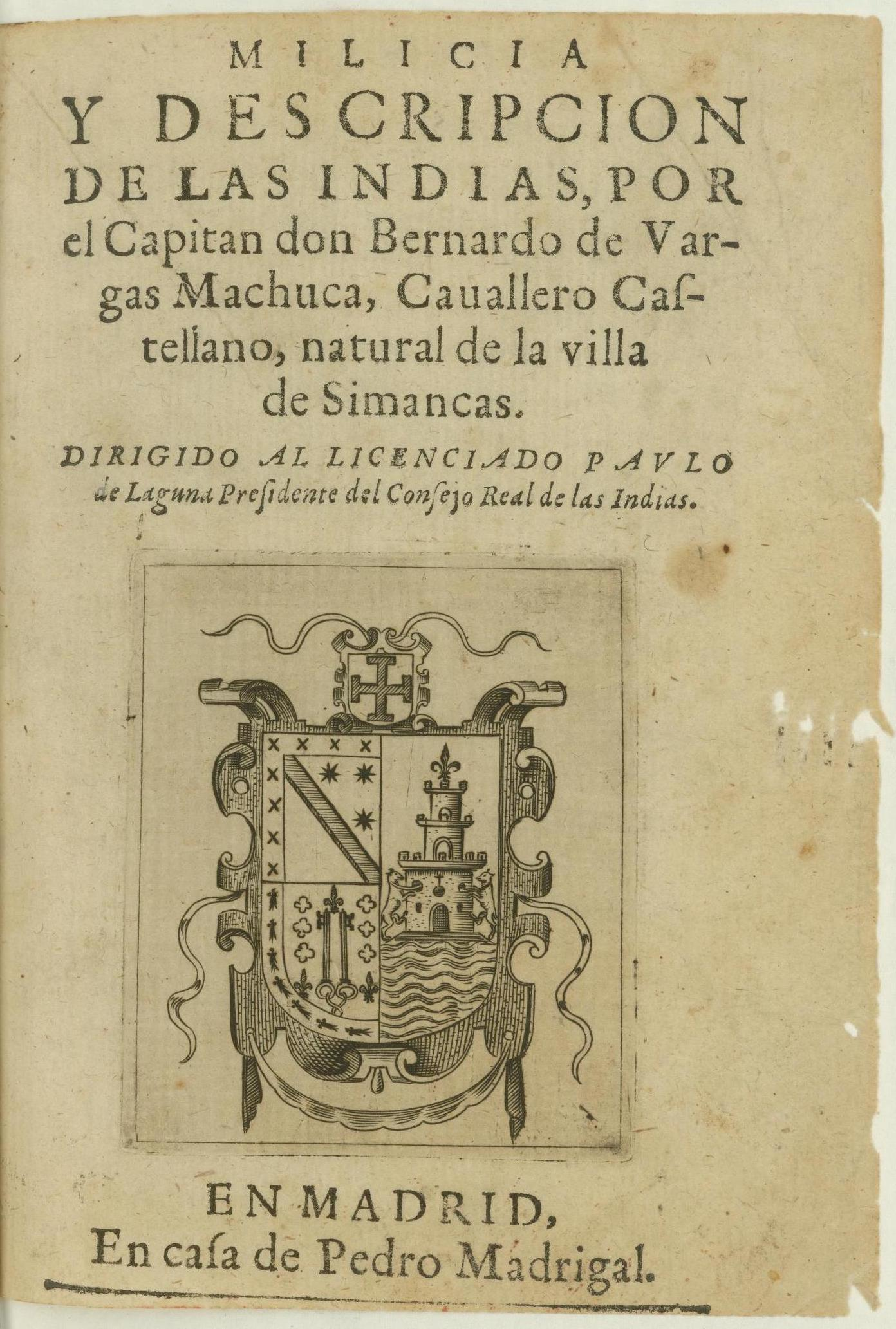 Title page of Bernardo de Vargas Machuca's Milicia Y Descripcion De Las Indias (1599). Note that the title page is closely trimmed with loss of imprint date. "Vargas Machuca (1557-1622) had a distinguished military career in the Spanish army. After serving in Spain and Italy, he fought the Indians from New Granada to Chile, ascending to the rank of captain general of Peru. In response to a request by the Council of the Indies for a report on the best means by which to conquer and colonize Chile, where numerous rebellions had taken place, Vargas undertook instead to write a truly unique books whose subject was the military organization of the Indies. The purpose of the book was mostly practical. Vargas used his long experience to provide useful information for Europeans who were planning to go to the New World. Written in the manner of a modern guide, the Milicia contains interesting advice on how to adapt to both the natural environment and the psychology of the Indians, and its recommendations are frequently illustrated with instances drawn from his own experience. There are discussions of climatic conditions, edible products, animals and insects, common health problems, and the best way to make peace and war with the Indians. A useful glossary of New World vocabulary is also included at the end. No reprints or translations of the Milicia appeared until a modern edition in Spanish was published in Madrid in 1892." Description from Delgado Gómez, Angel, and Susan L Newbury. Spanish Historical Writing about the New World, 1493-1700. Providence, RI: John Carter Brown Library, 1994, 59.